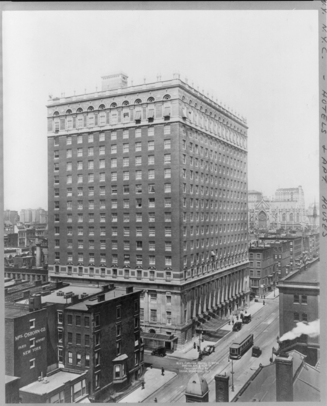 Title: New York City - Ritz-Carlton Hotel, Madison Ave. & 46th St. Abstract/medium: 1 photographic print.